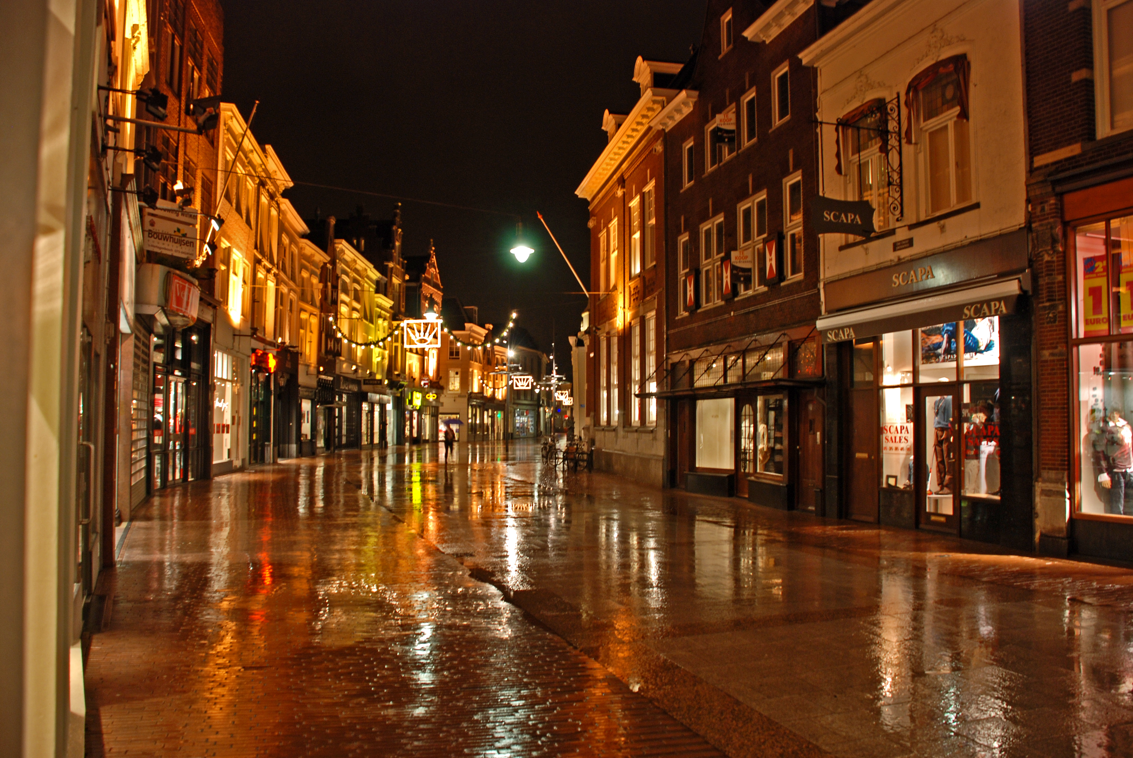 Street with shops in Den Bosch, The Netherlands